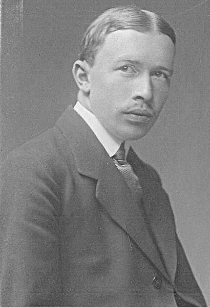 Swedish geologist, mineralogist, professor and Director General of the Geological Survey of Sweden, Nils H Magnusson (1890-1976)